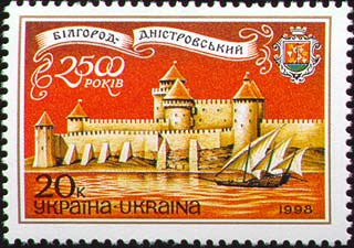 Stamp of Ukraine